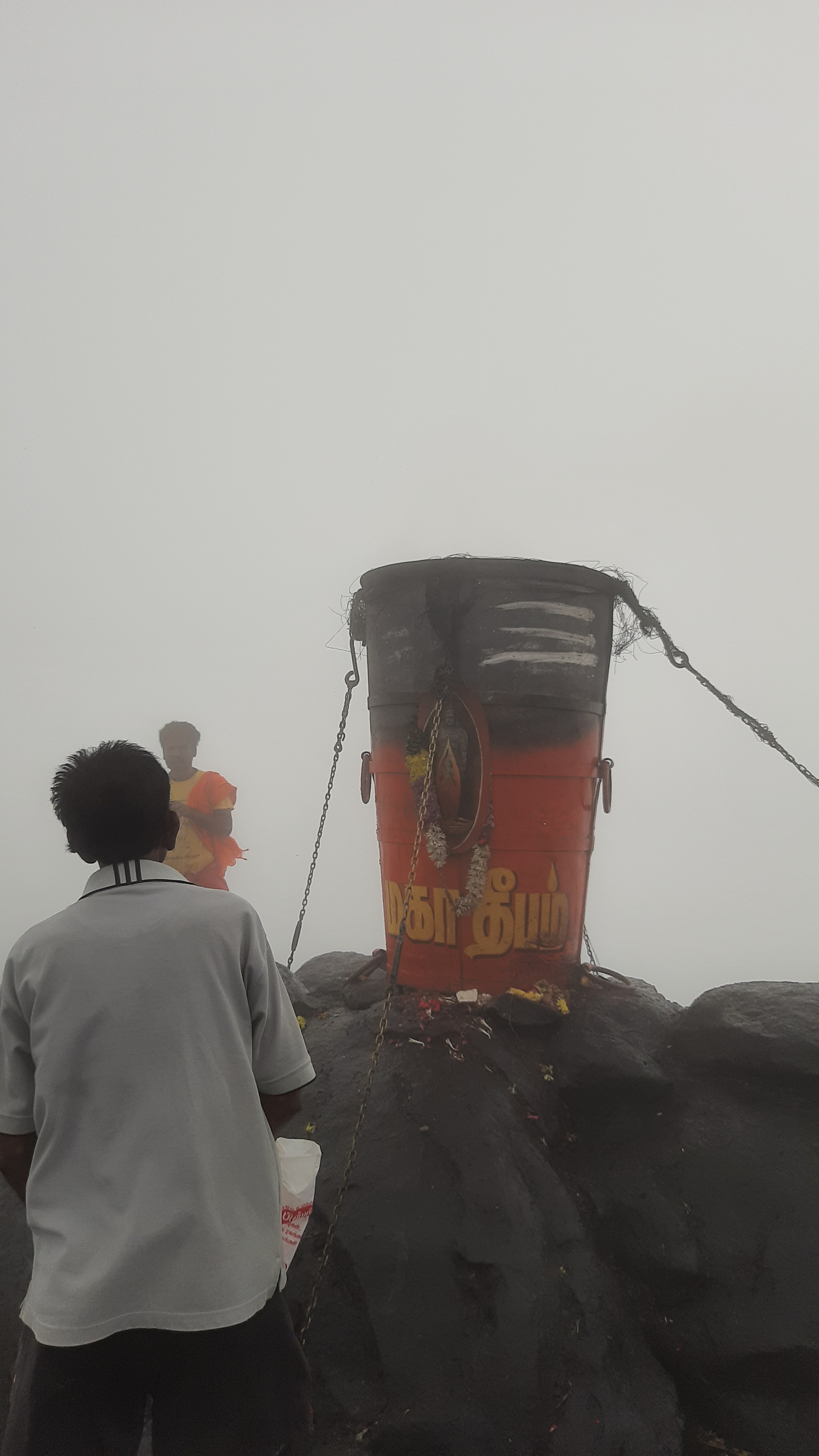 Deepam at the top of Mt. Arunachala